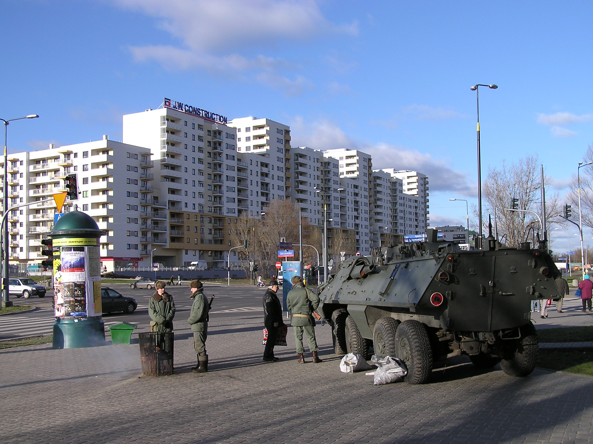 Martial law, Warsaw, reconstrution, 13.12.2007 (in memory of 13.12.1981)